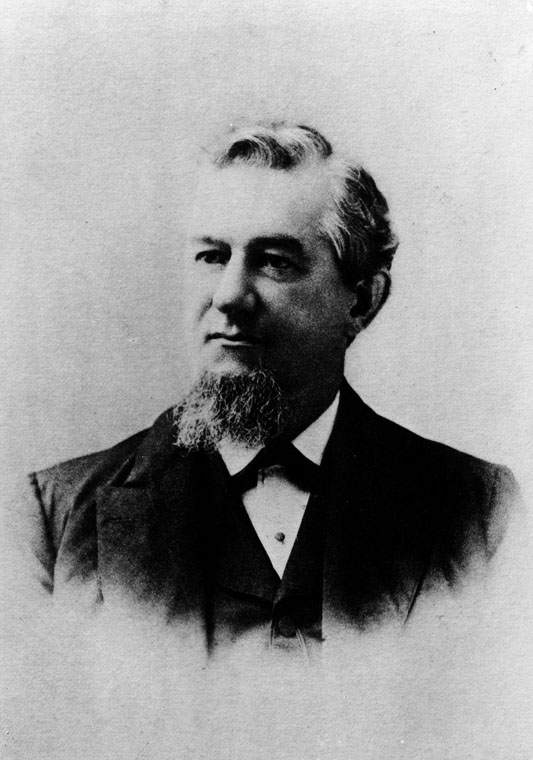 Portrait of Edward F. Spence, who served as Mayor of Los Angeles from 1884-1886.(1885)